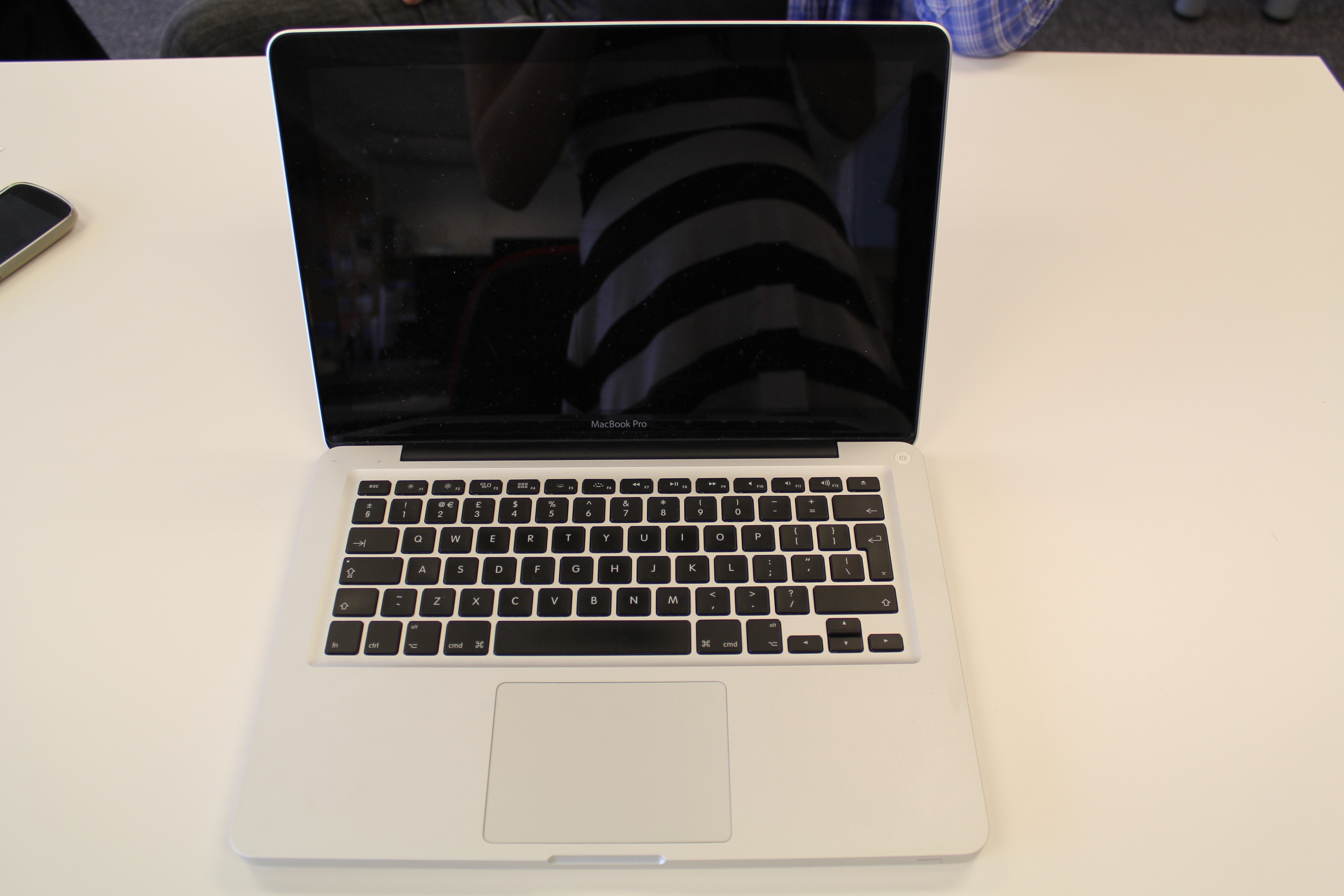 WMUK's Apple MacBook Pro.